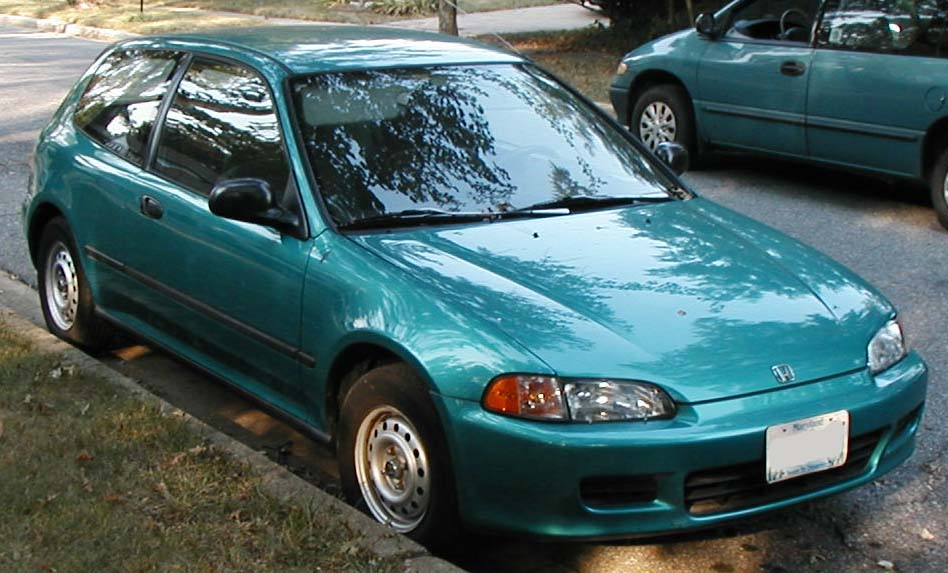 1991-1995 Honda Civic hatchback photographed in USA.